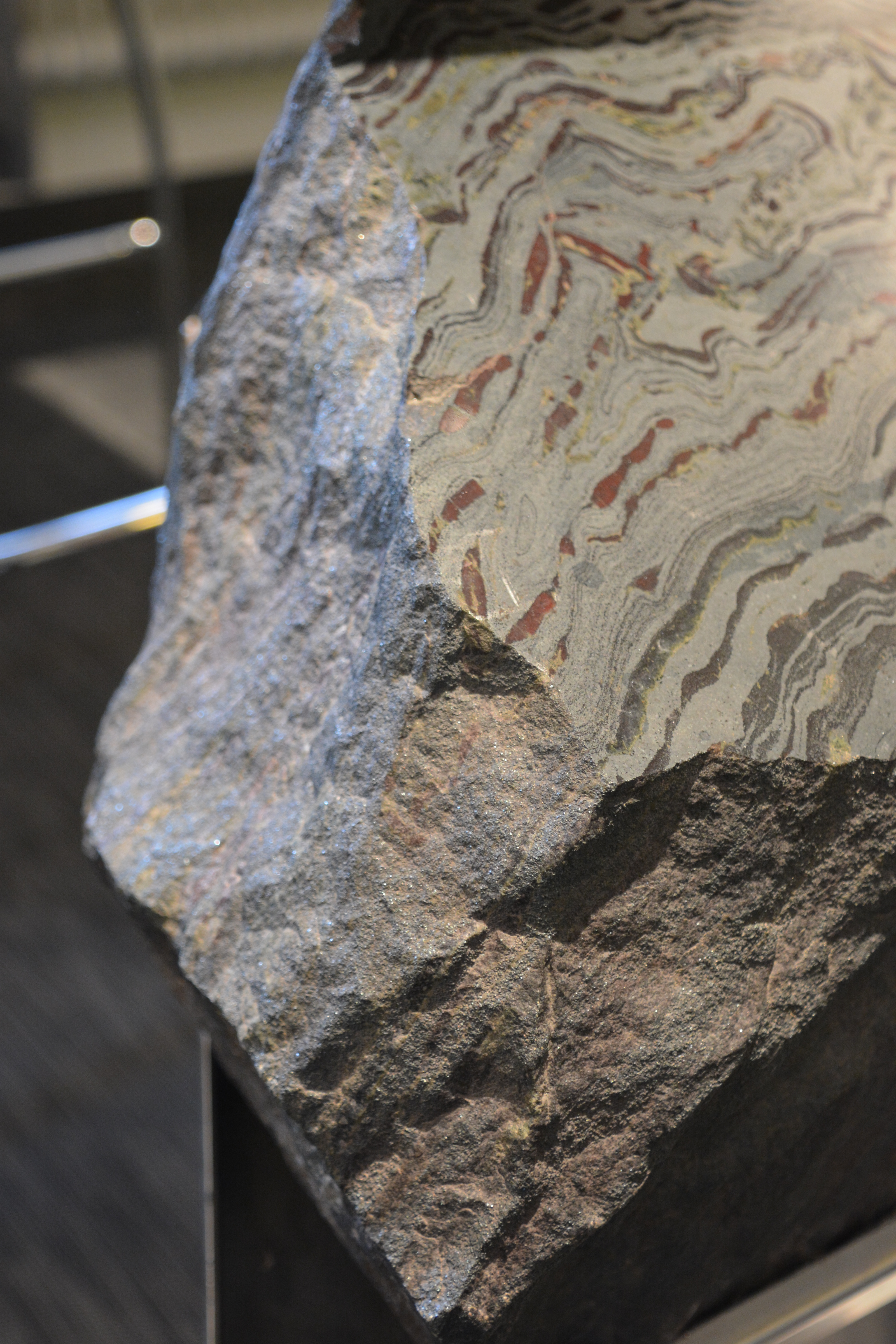 Hematite from Stripa Mine, Sweden